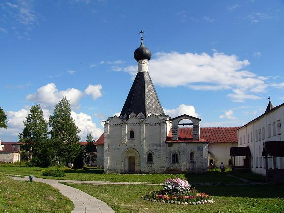 Kirillo-Belozersky Monastery. Evphimy Church (1653)